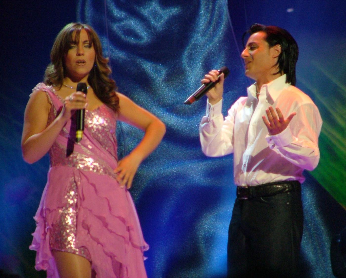 Julie & Ludwig during a rehearsal at the Eurovision Song Contest 2004 in Istanbul